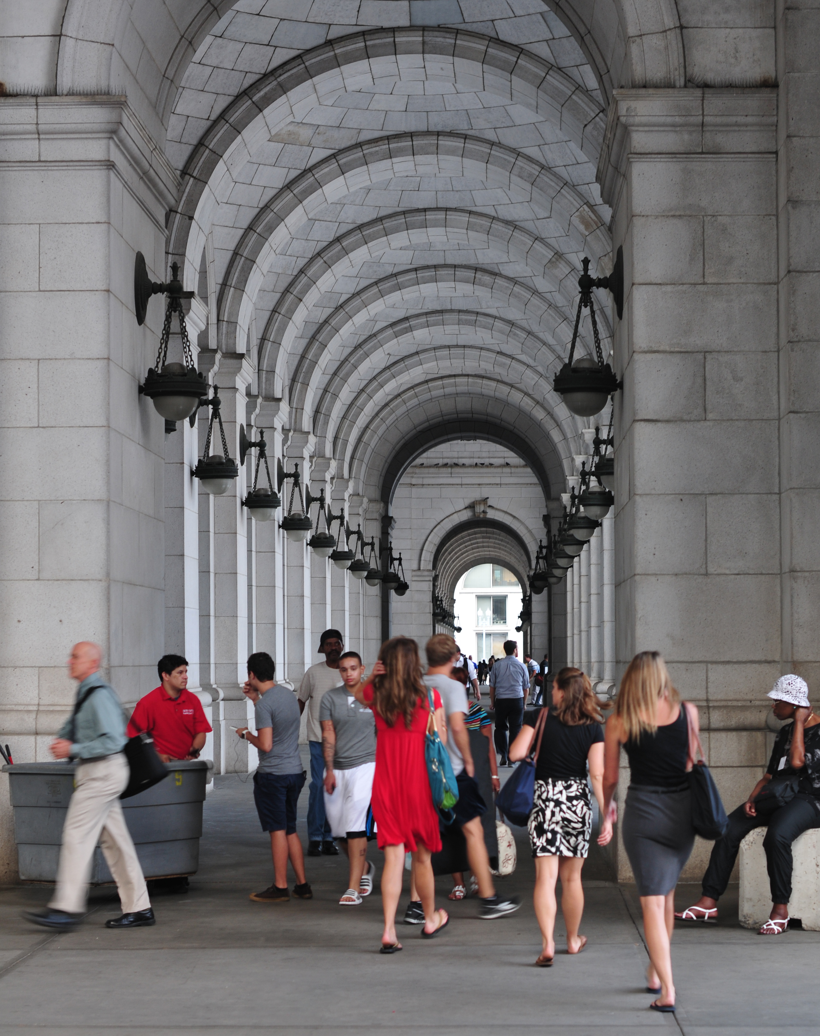 Washington D.C., Union Station The making of this work was supported by Wikimedia Austria. For other files made with the support of Wikimedia Austria, please see the category Supported by Wikimedia Österreich.